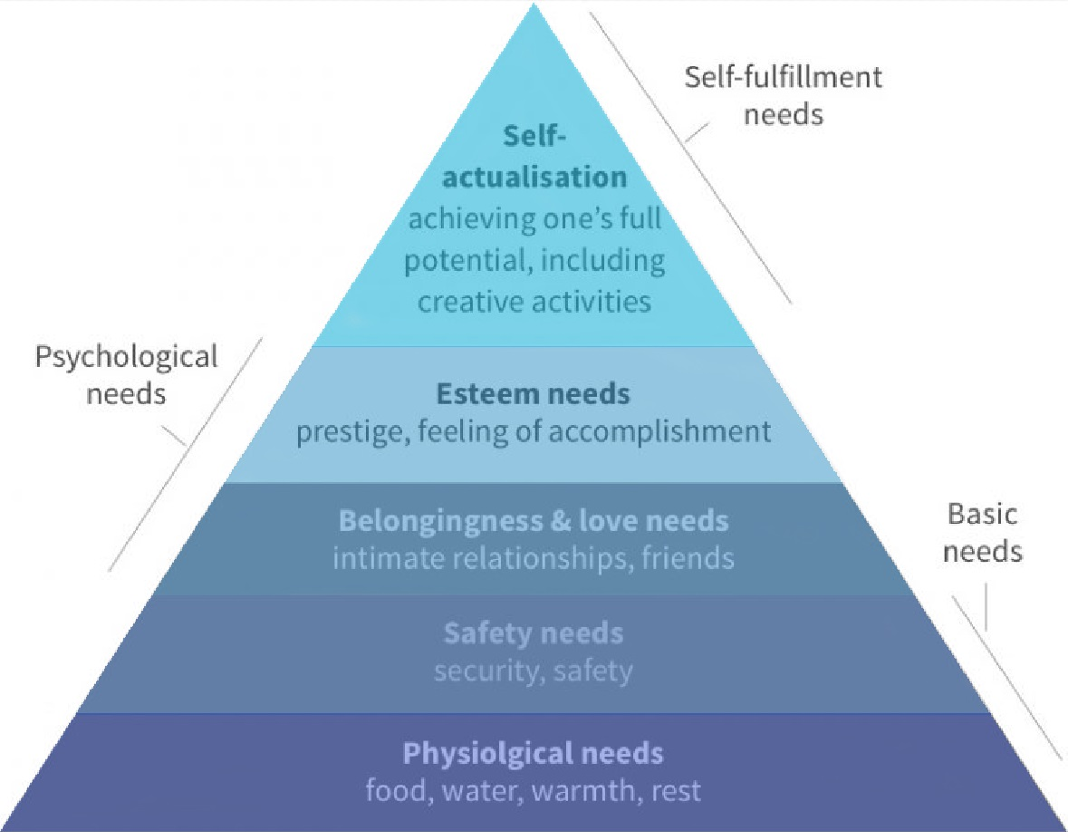 A pyramid chart with examples of the categories